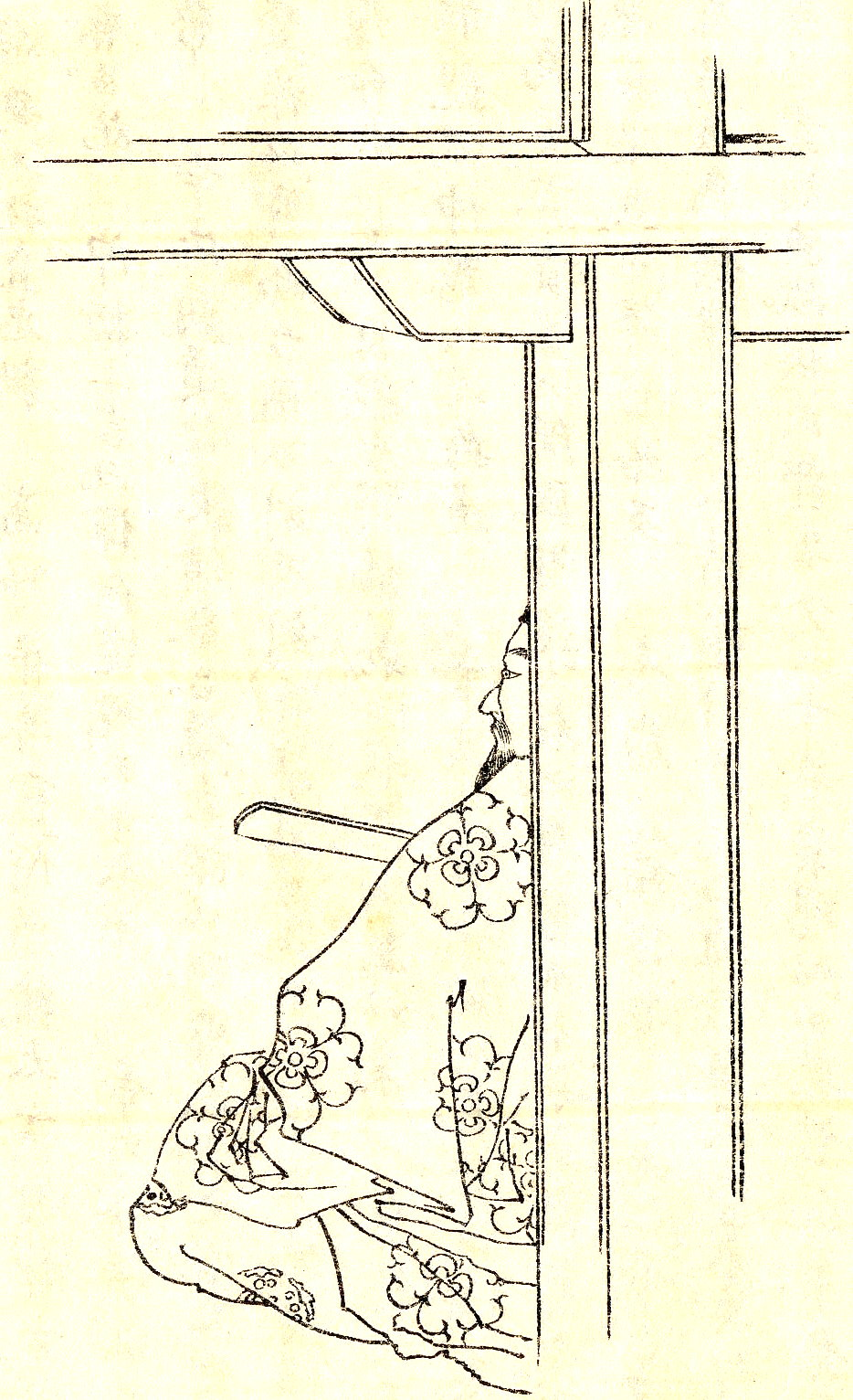 Fujiwara no Nagate(藤原永手) was a Japanese politician and court noble in Nara period.